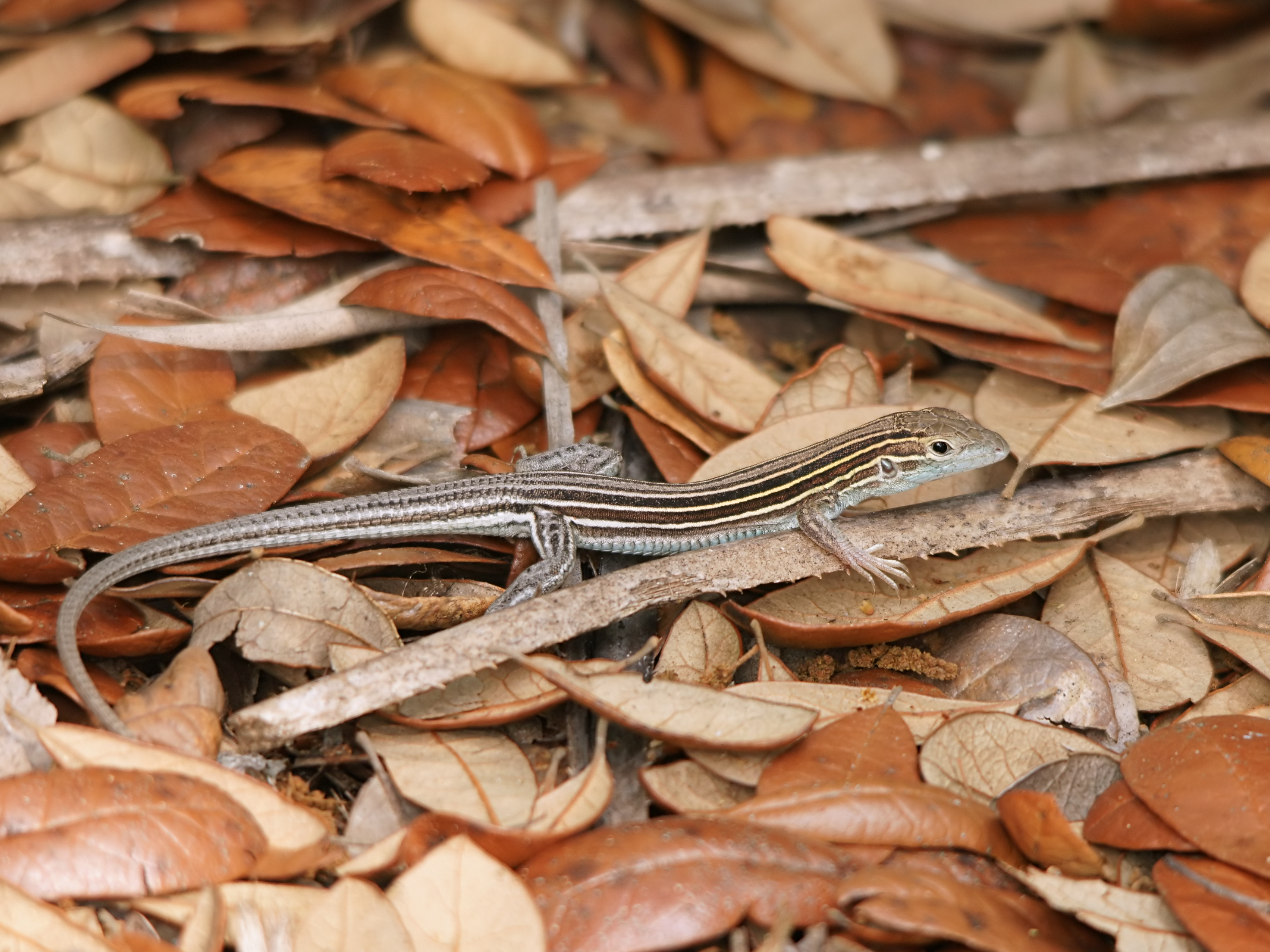 Male Six-lined Racerunner at Lake Louisa State Park in Lake County, Florida, U.S.A.